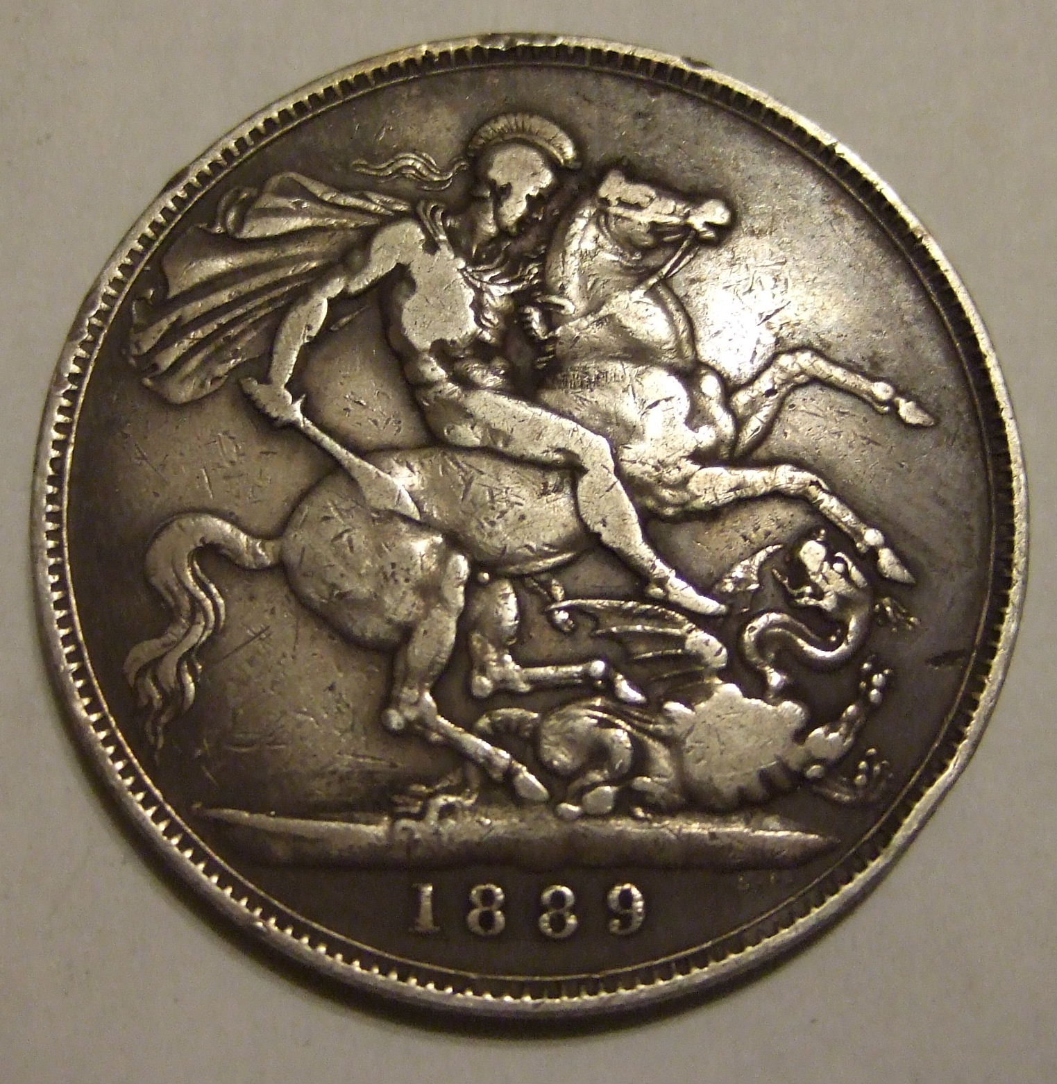 GREAT BRITAIN, VICTORIA 1889 ---CROWN a